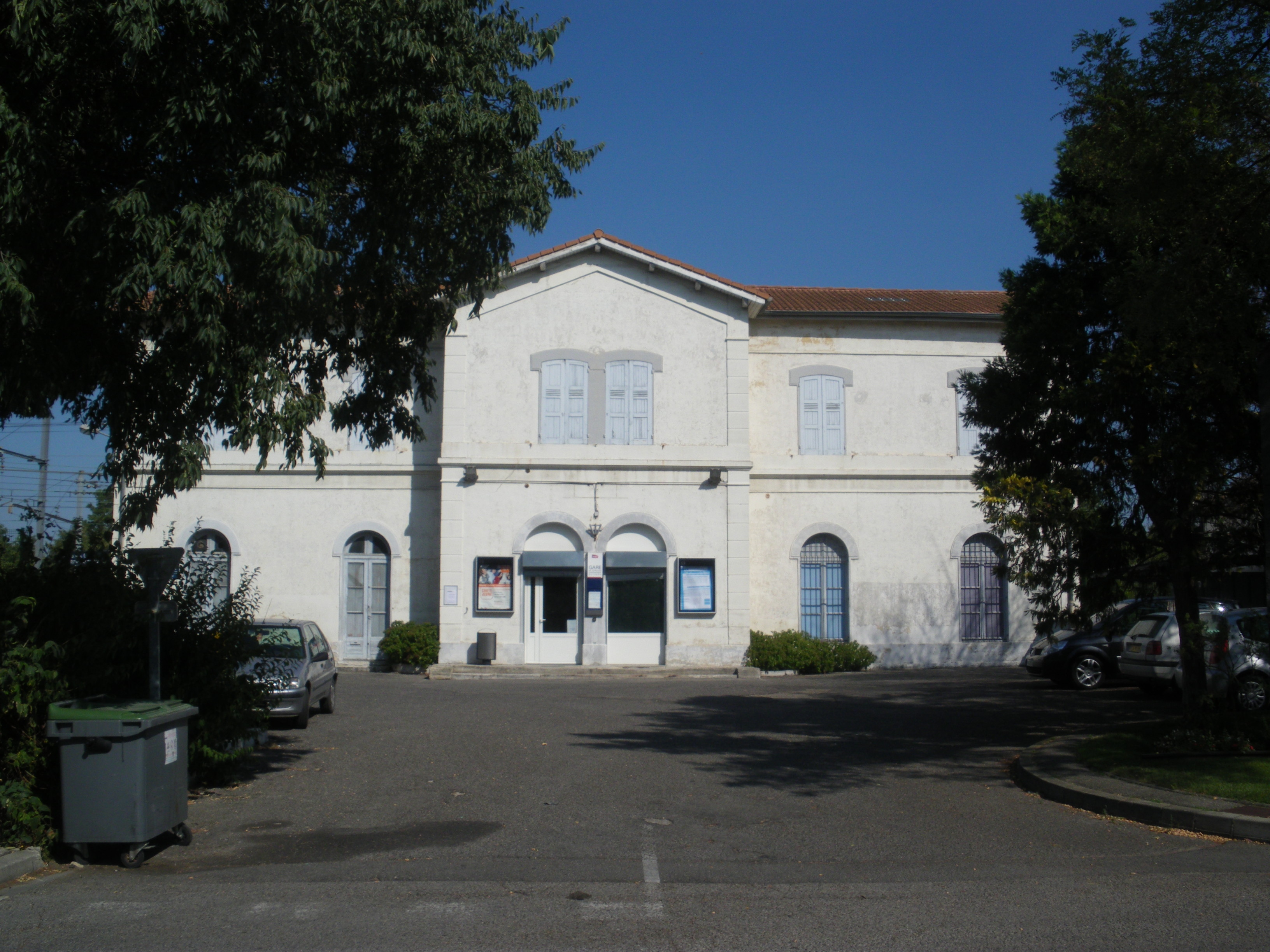 Sorgues Trains station, Vaucluse, France